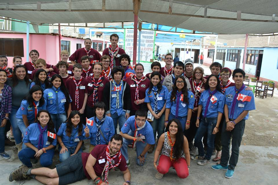 In the College Santa Rosa of Llanavilla, Lima, Peru.